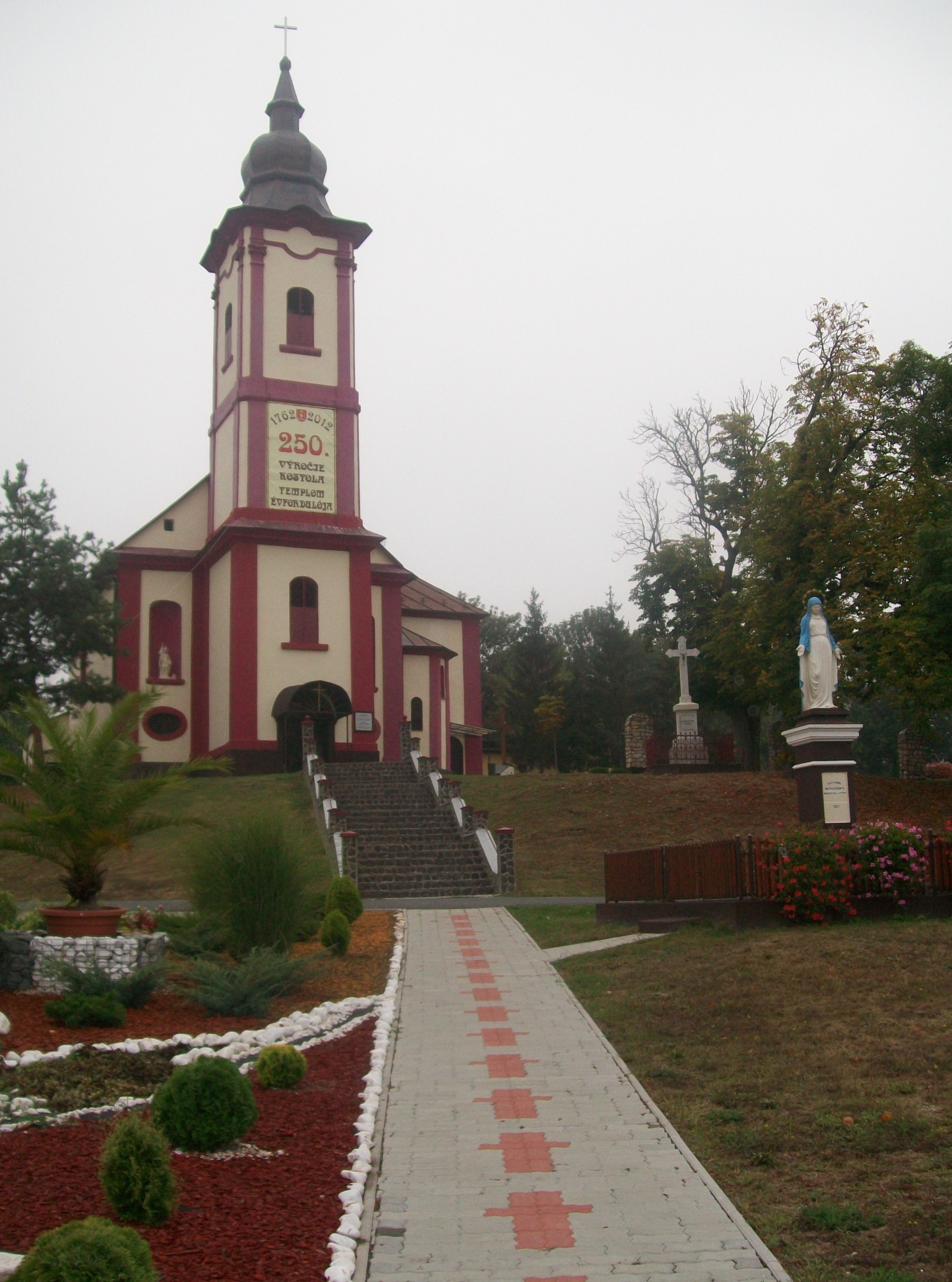 Roman Catholic All Saints Church in the village Veľká nad IpľomSlovenčina: Rímsko-katolícky kostol Všetkých svätých v obci Veľká nad Ipľom